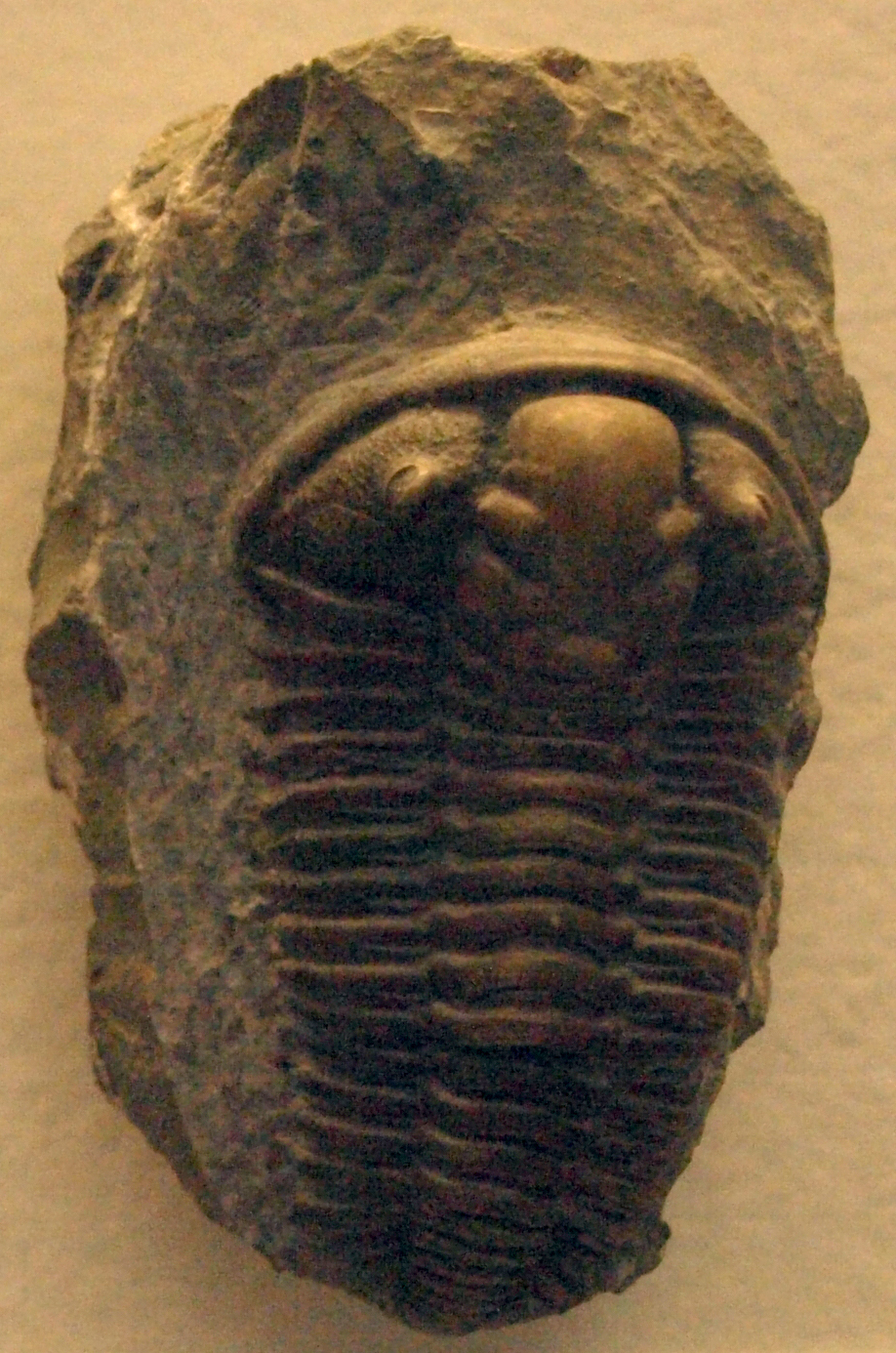 Calymene blumenbachii, a trilobite also known as the "Dudley locust", found at Dudley in Worcestershire. From the Silurian Wenlock series.